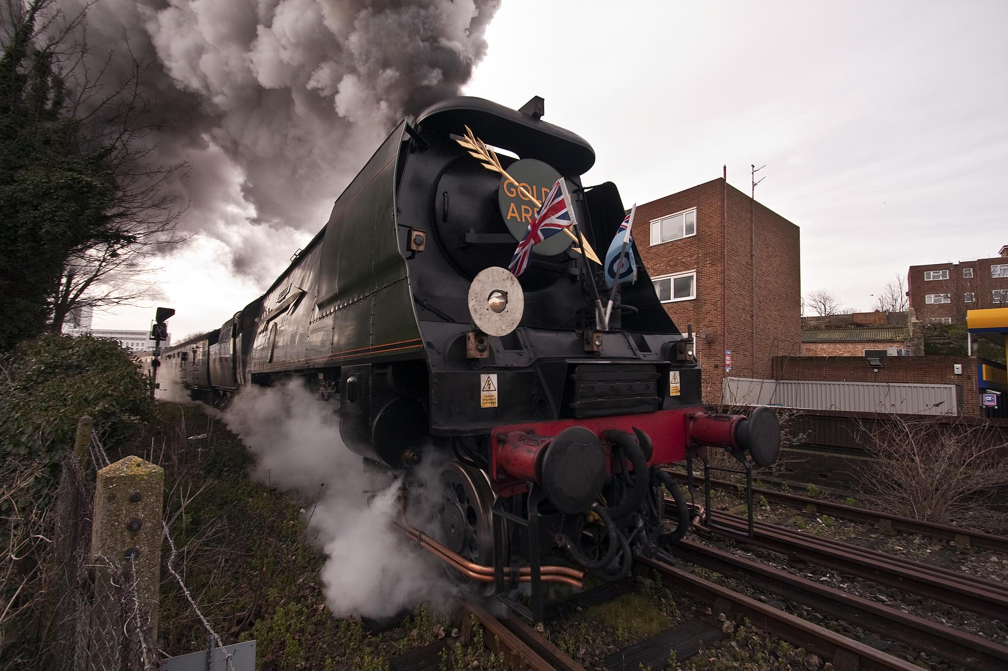 A journey from London Victoria around the ‘Garden of England’ with a break at beautiful Canterbury. Steam hauled by ex Southern Railway Bullied West Country Class No. 34067 ‘Tangmere’ in full Golden Arrow regalia! Seen here on the 1:30 Climb up the harbour branch line. SR BoB Class 4-6-2 no 34067 Tangmere Taunton to Canterbury via Folkestone Harbour. Possibly the last Steam Train on this line before it is removed. This is a train with a real ‘wow’ factor that any steam enthusiast would not want to miss on a circular tour of over 200 miles hauled by Southern Railway Battle of Britain Pacific No 34067 ‘Tangmere’ complete with the Golden Arrow regalia. The highlight of the day being the 1 in 30 climb up the soon to be closed branch from Folkestone Harbour. The Golden Arrow was a luxury train of the Southern Railway and later British Railways that linked London with Dover, where passengers took the ferry to Calais to join the Flèche d’Or of the Chemin de Fer du Nord and later SNCF that took them onto Paris. Best Viewed Large